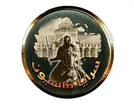 Saraya Qasioun logo